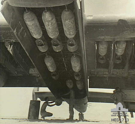 Armourers loading bombs into the main bomb bay in a Handley Page Halifax B Mk II of No. 462 Squadron RAAF, at Hosc Raui, Cyrenaica, Libya.